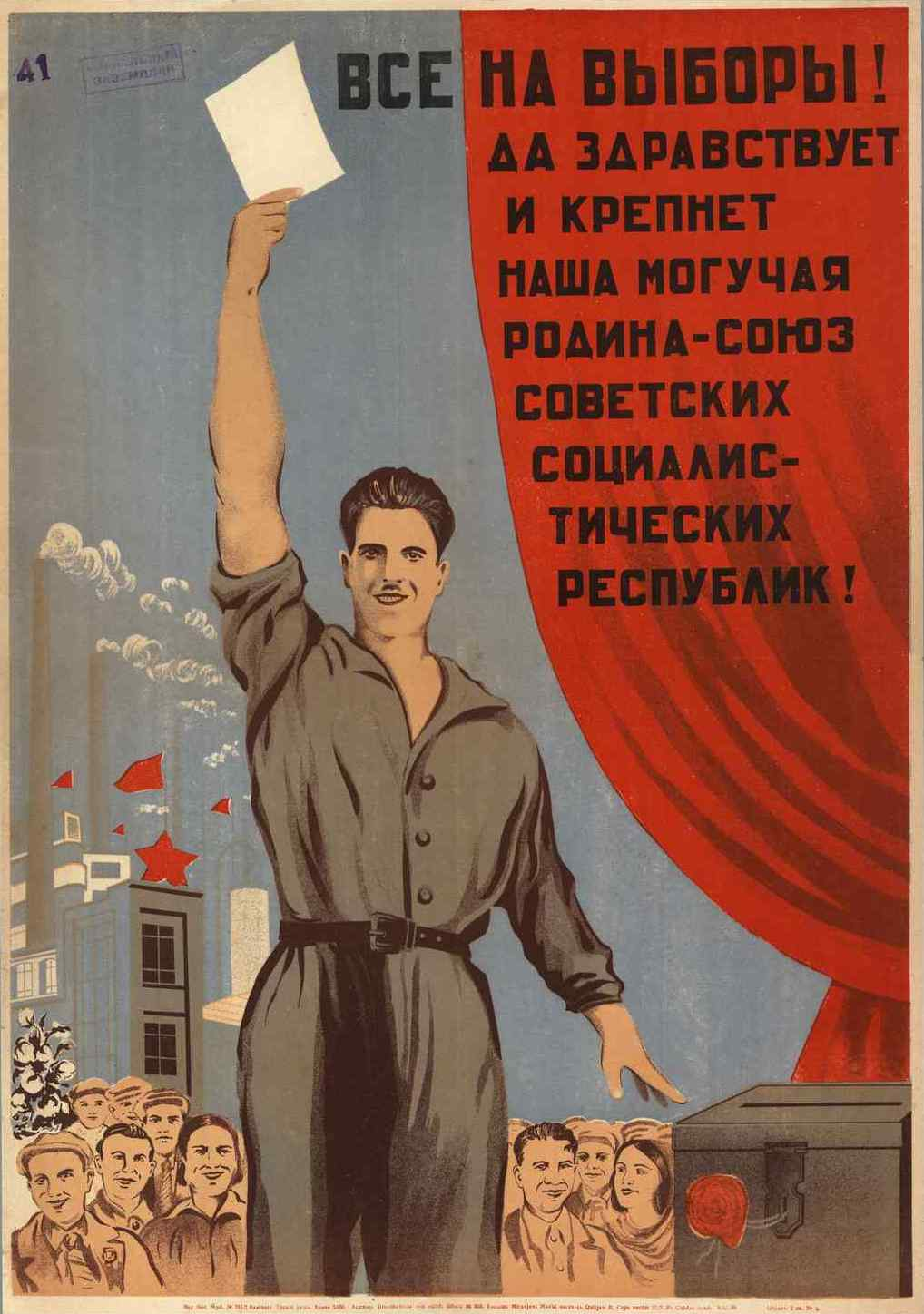 Poster of Azerbaijan 1939. General elections